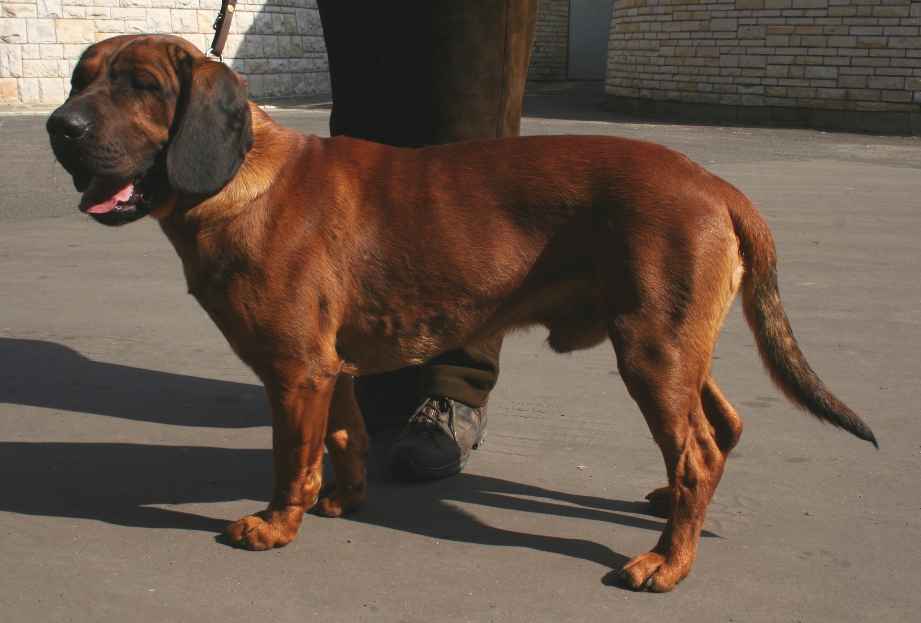 Honoverian Hound during International show of dogs in Katowice - Spodek, Poland